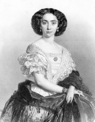 Hungarian opera singer Róza Csillag (1832-1892) by Eduard Kaiser (1820-1895).